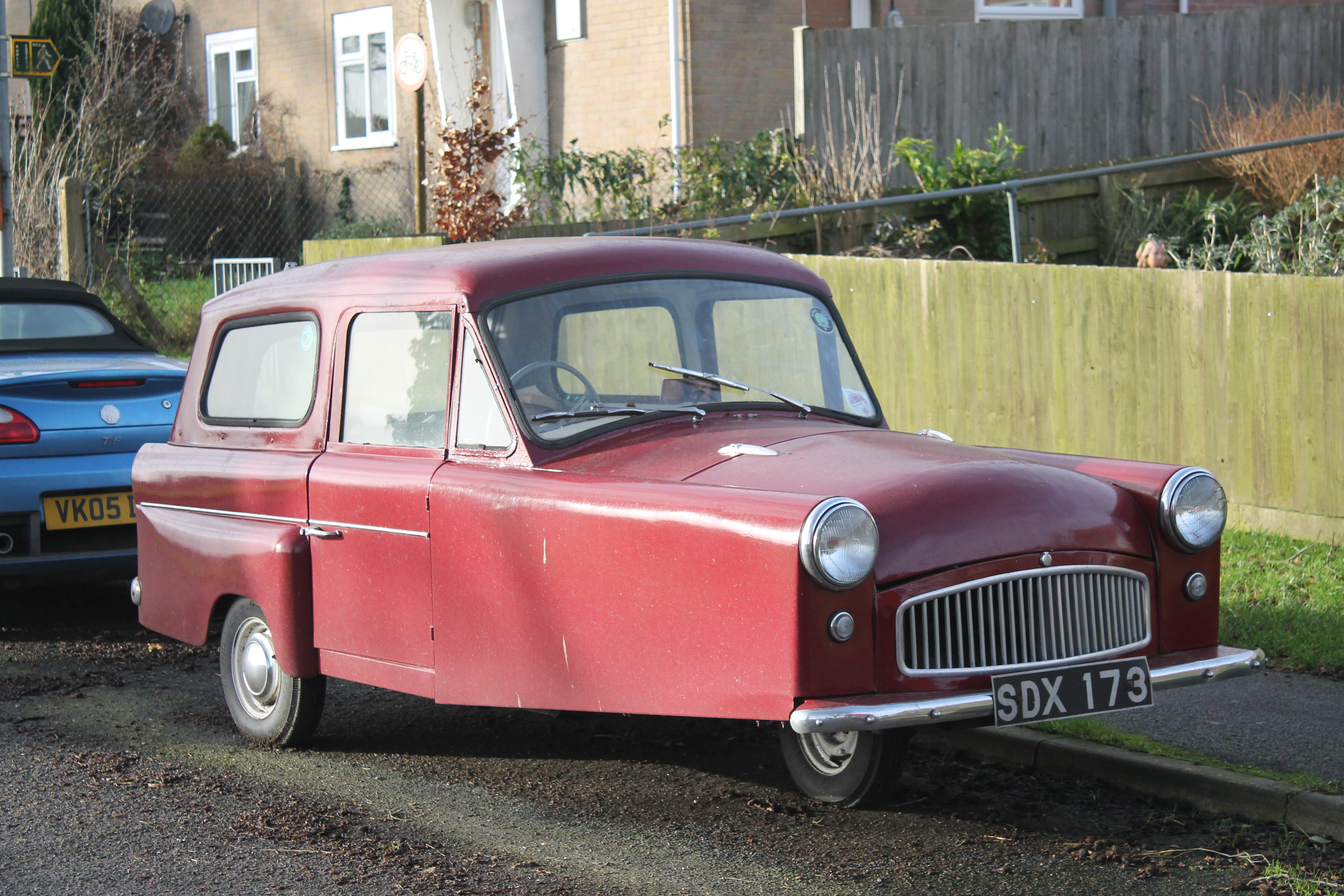 Wow, now this makes a nice change from a Reliant Robin! These are really rather unusual, even more so parked on an ordinary street. Probably a few visiting shows though... One of only 8 Bond 250Gs on the road currently... I suppose the 250 refers to the 246cc engine this sports with 11.5 HP! 3,523 were built between 1961 and 1966. This was only first registered in 1981, but is RHD. Registration number: SDX 173 ✔ Taxed Tax due: 01 November 2015 ✔ MOT Expires: 10 April 2015 Vehicle make BOND Date of first registration 01 May 1981 Year of manufacture 1963 Cylinder capacity (cc) 246cc Fuel type PETROL Export marker No Vehicle status Tax not due Vehicle colour RED